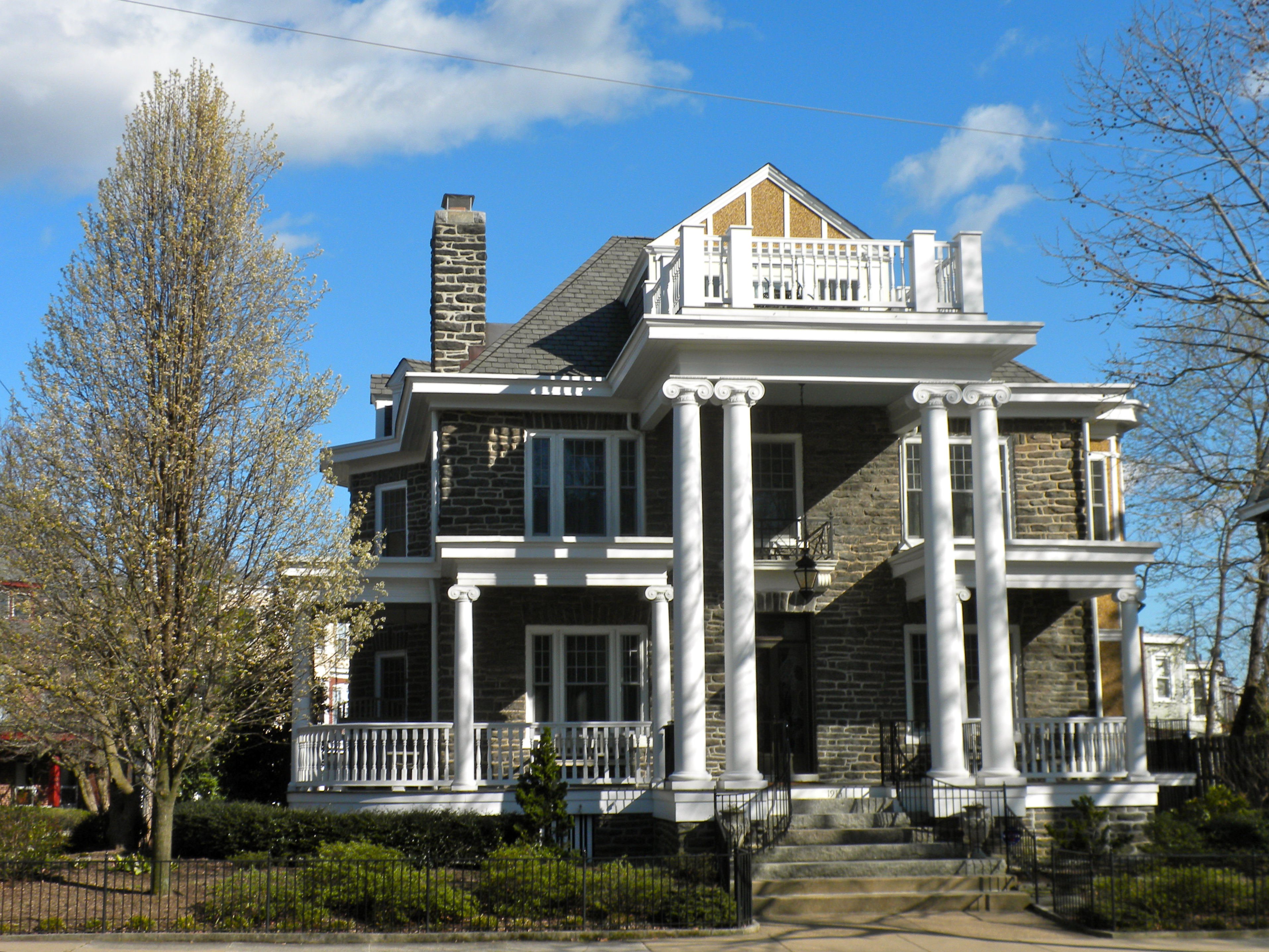 House on Baynard Boulevard (1914) in the Baynard Boulevard Historic District on the NRHP since July 26, 1979. The HD covers Baynard Blvd. between 18th St. and Concord Ave.